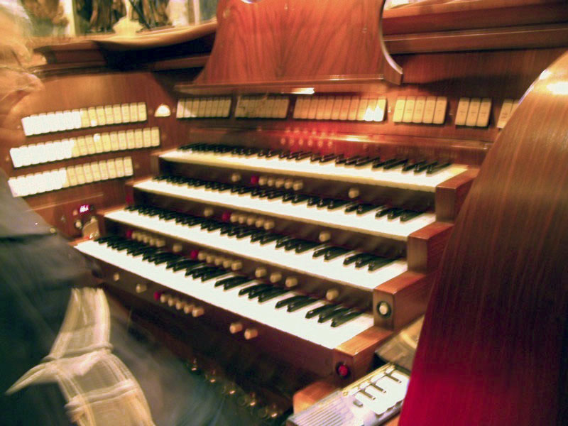 d